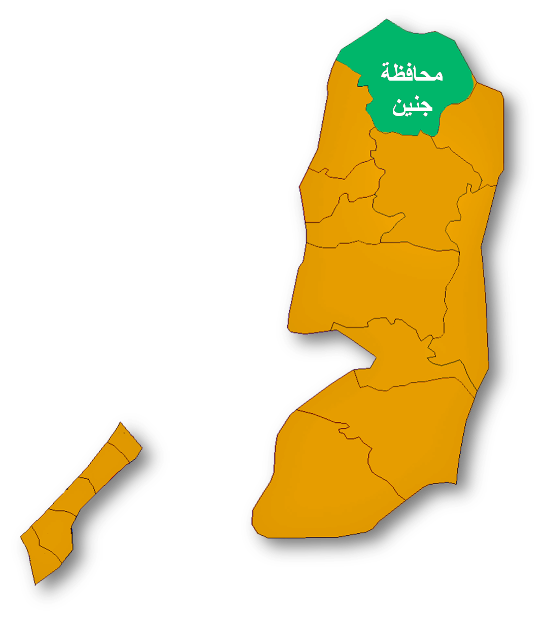 Map of the Palestinian Authorities showing the Governate of Jenin